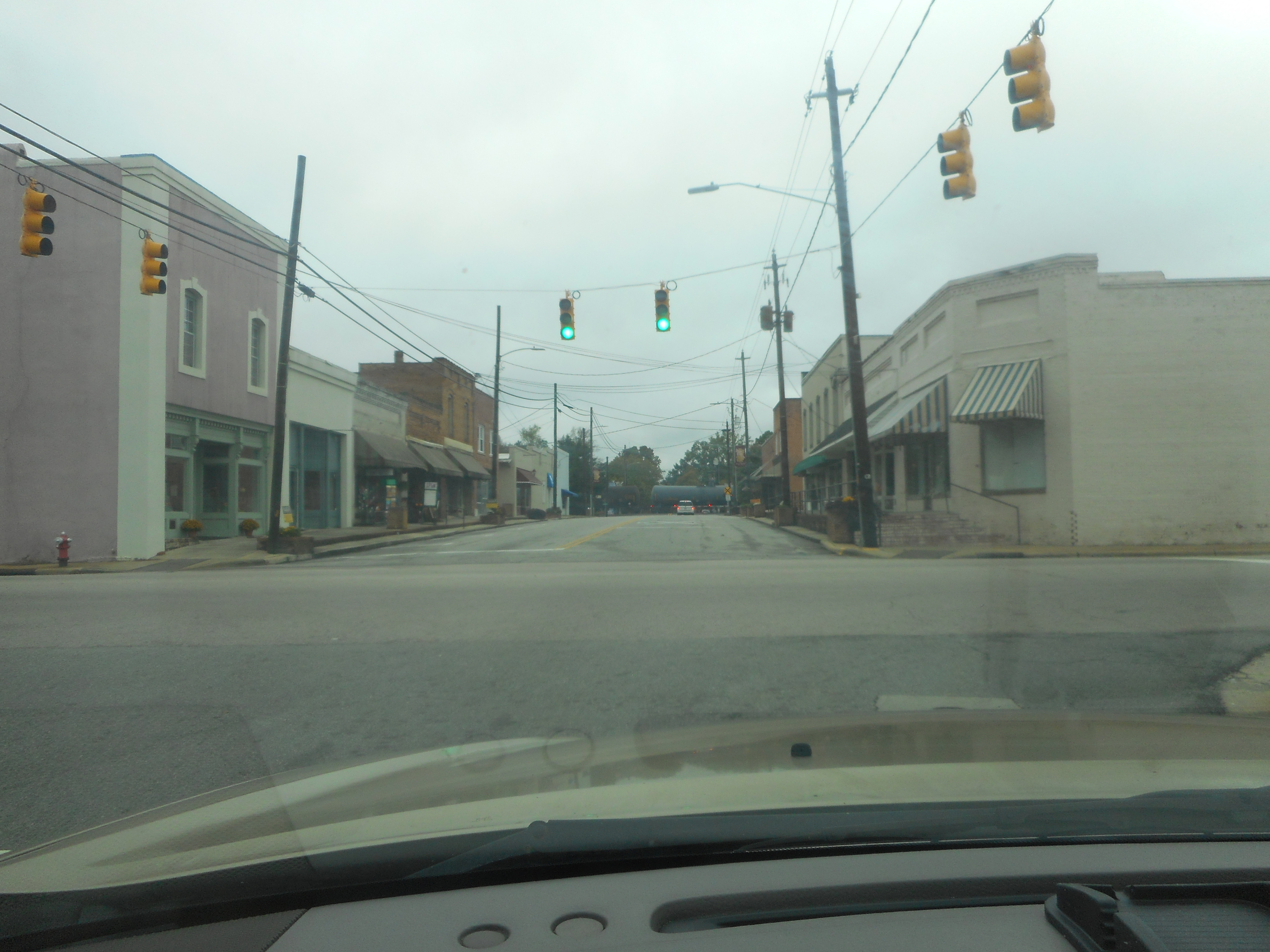 Apparently the main intersection of the Four Oaks Commercial Historic District in Four Oaks, North Carolina. This view is from South Main Street and U.S. Route 301, which is where South Main Street becomes North Main Street. A freight train along the CSX South End Subdivision runs along the North Main Street railroad crossing in the distance.